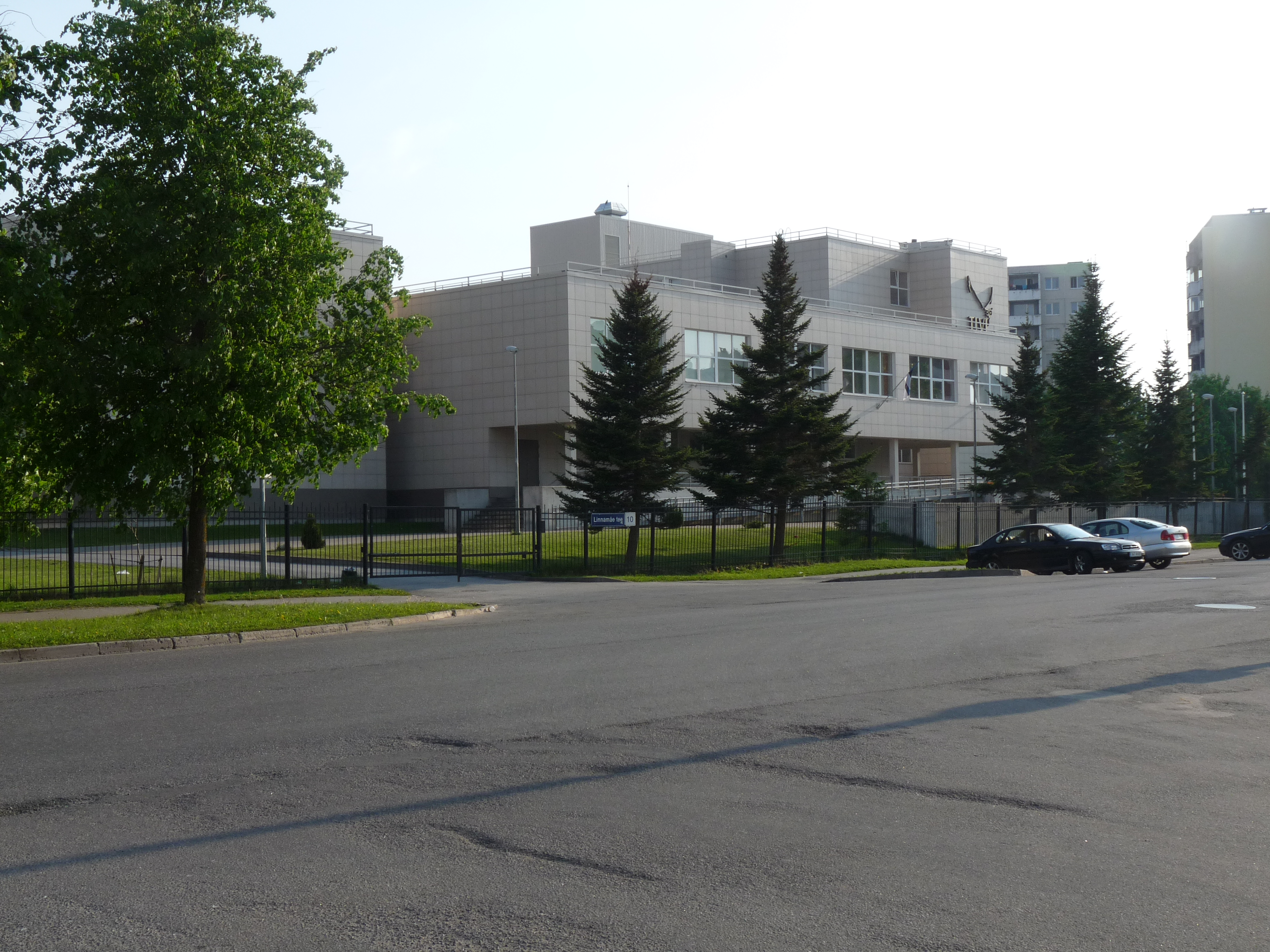 Linnamäe Russian Liceum in Tallinn